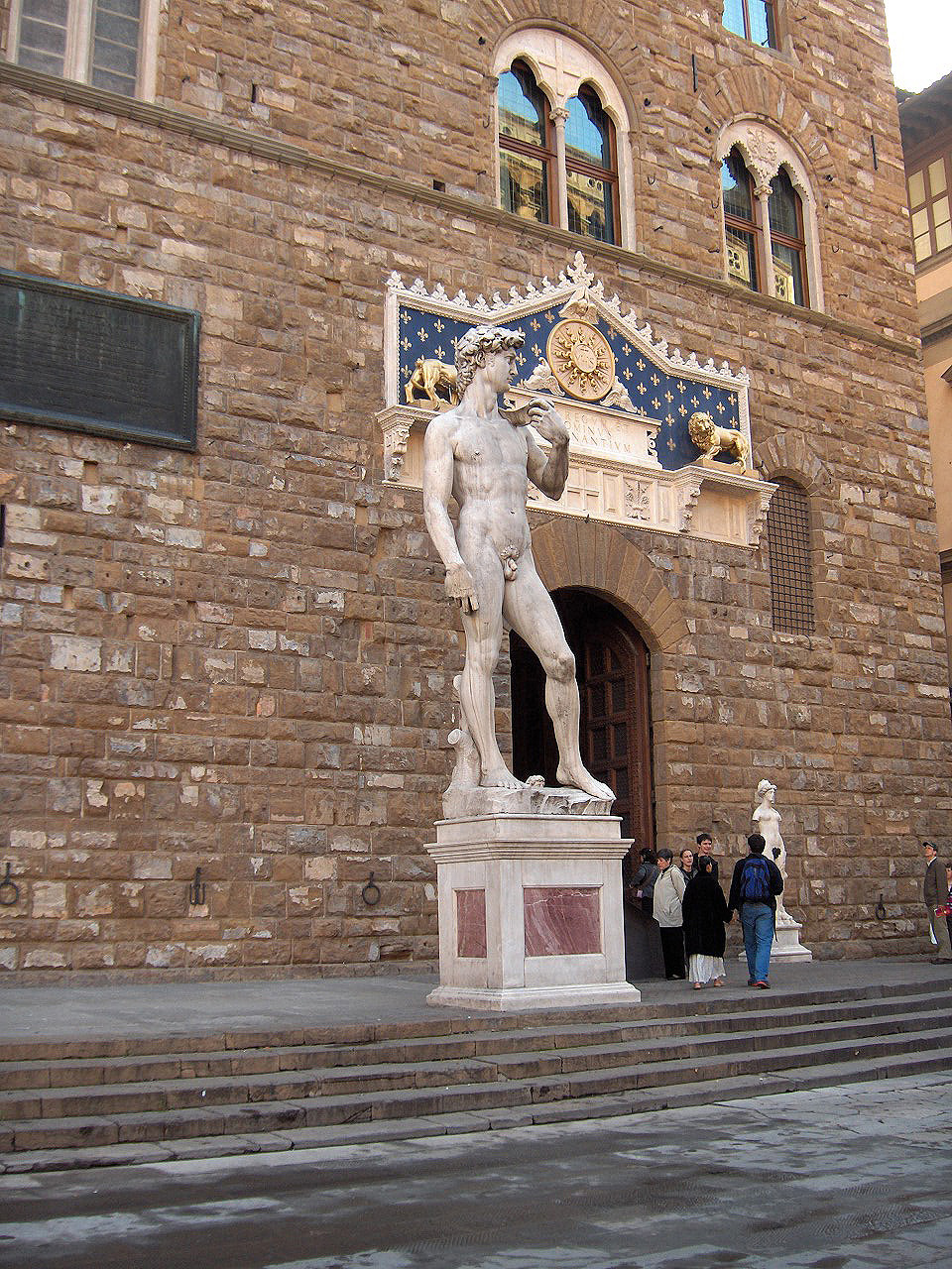 Statue of David, (replica) in front of the Palazzo Vecchio, Florence, Italy Own photo - photo made on 12 October 2005